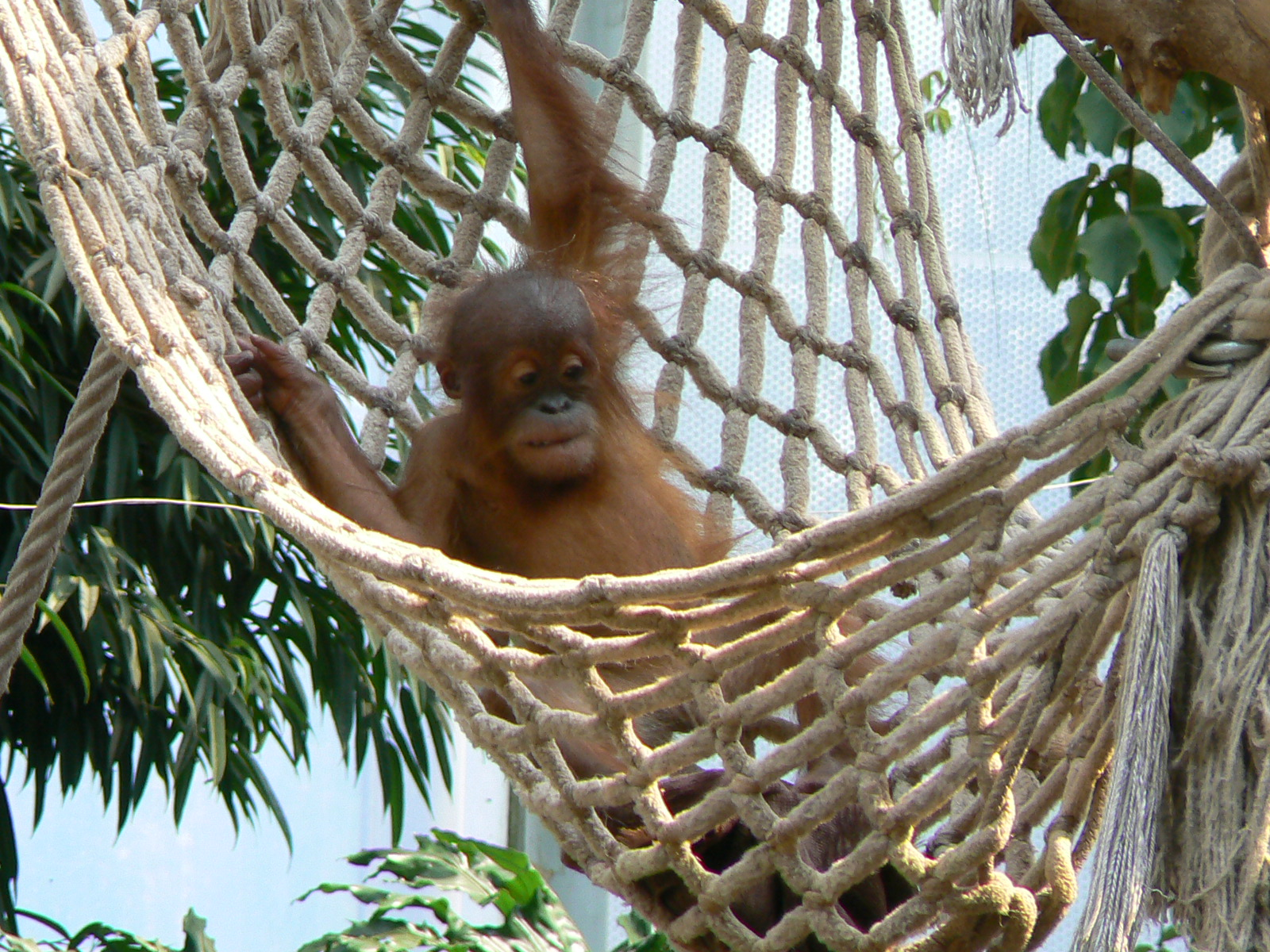 Sumatran Orangutan